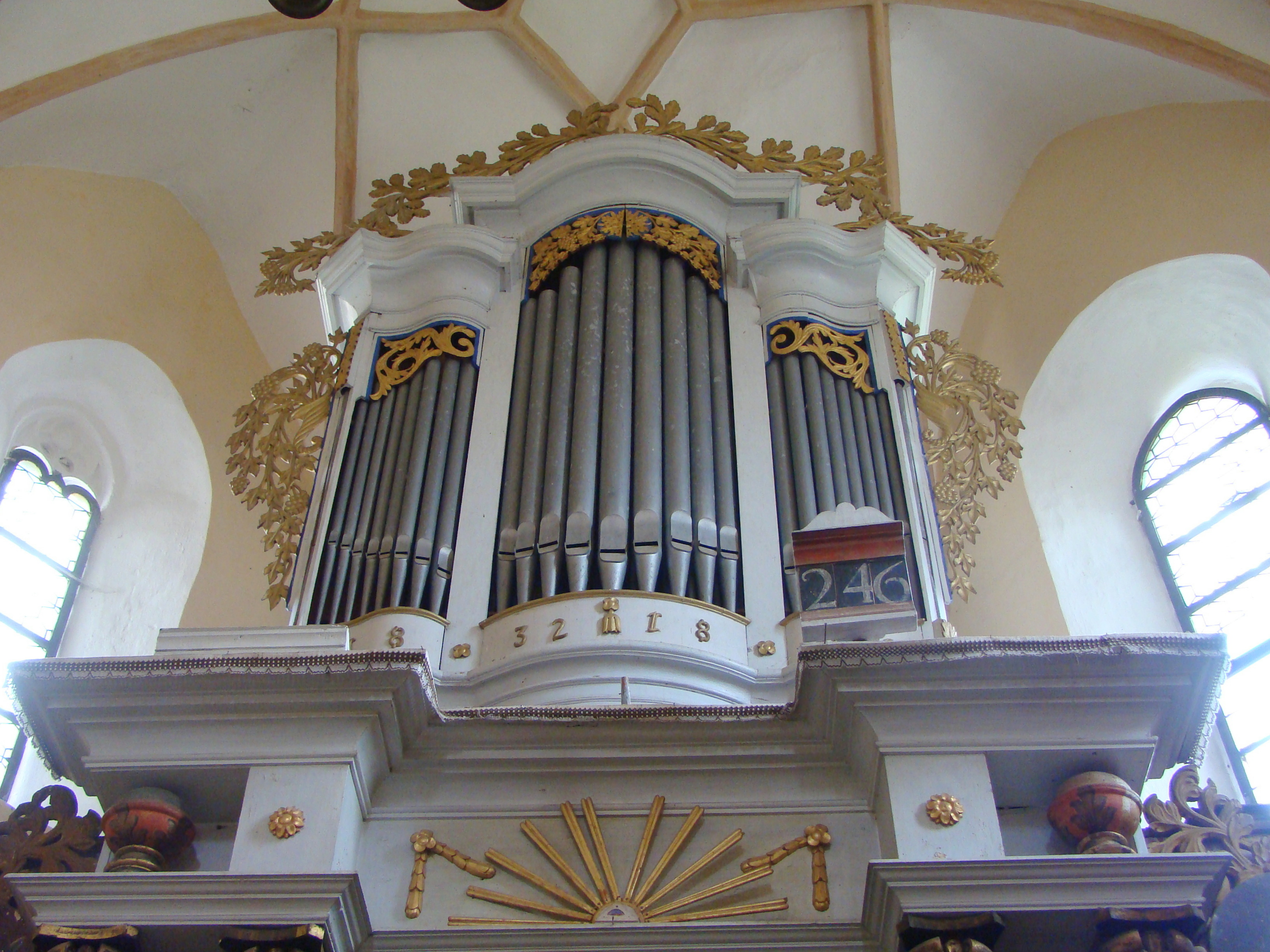 Lutheran church in Cloașterf, Mureș county, Romania